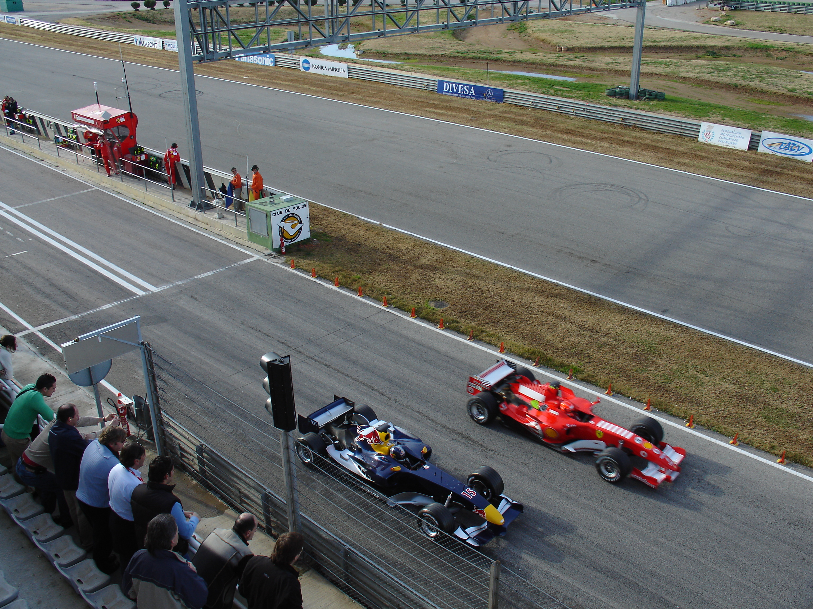 Michael Schumacher overtaking Christian Klien at the end of box lane at Cheste Circuit (Valencia)